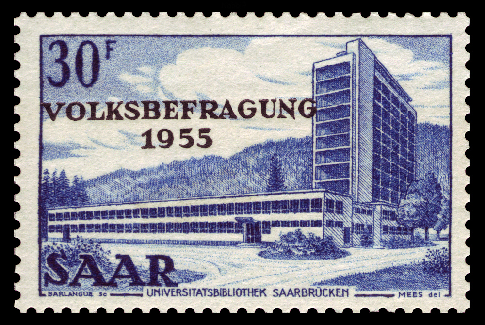 3 stamps from the 1952 edition „Ansichten aus dem Saarland“ with overprints